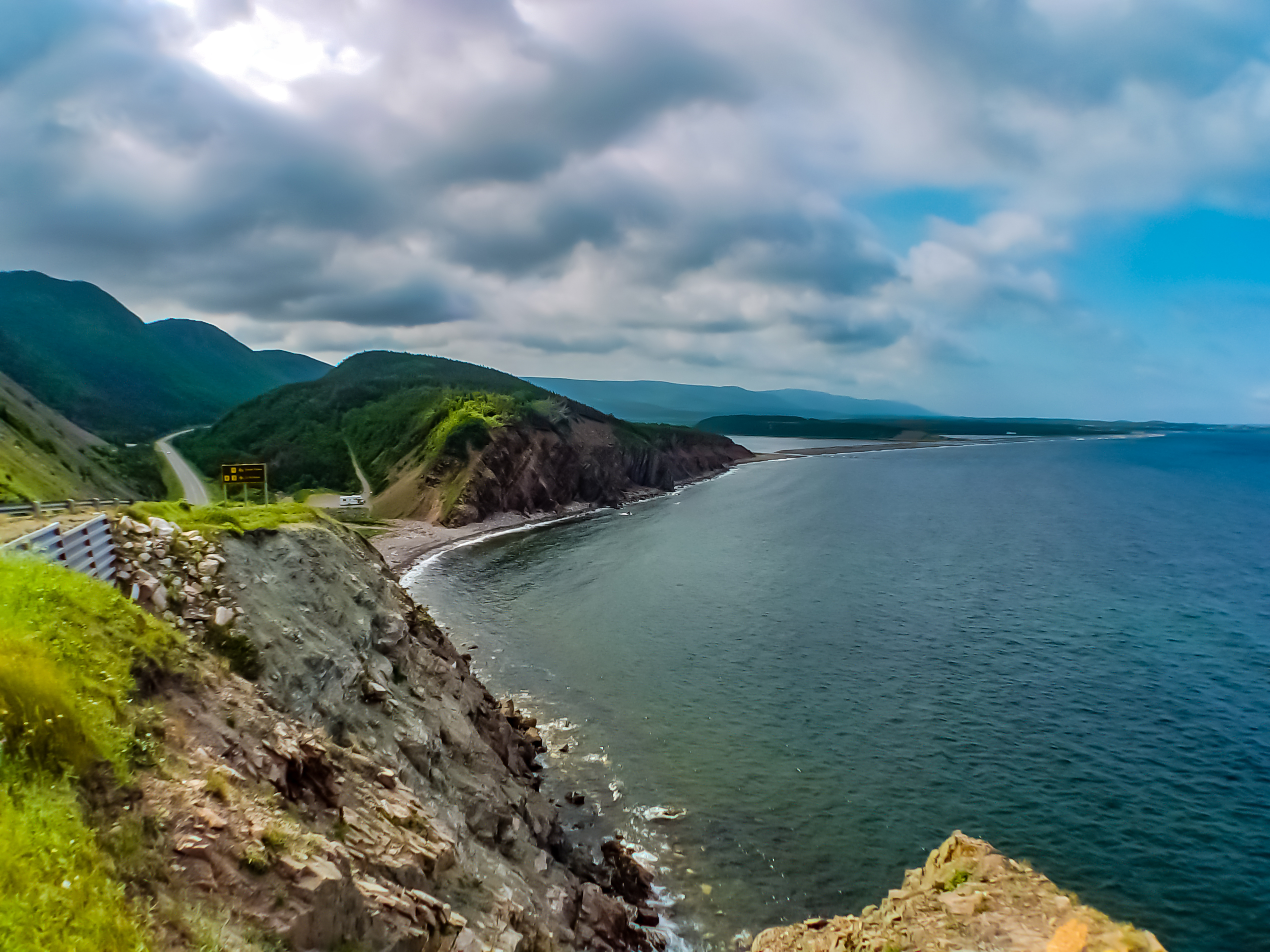 Cape Breton Island (French: île du Cap-Breton—formerly Île Royale; Scottish Gaelic: Ceap Breatainn or Eilean Cheap Bhreatainn; Mi'kmaq: Unama'kik; or simply Cape Breton) is an island on the Atlantic coast of North America and part of the province of Nova Scotia, Canada.[4] Its name may derive from Capbreton near Bayonne, or more probably from the word Breton, the French demonym for Bretagne, the French historical region.[4]